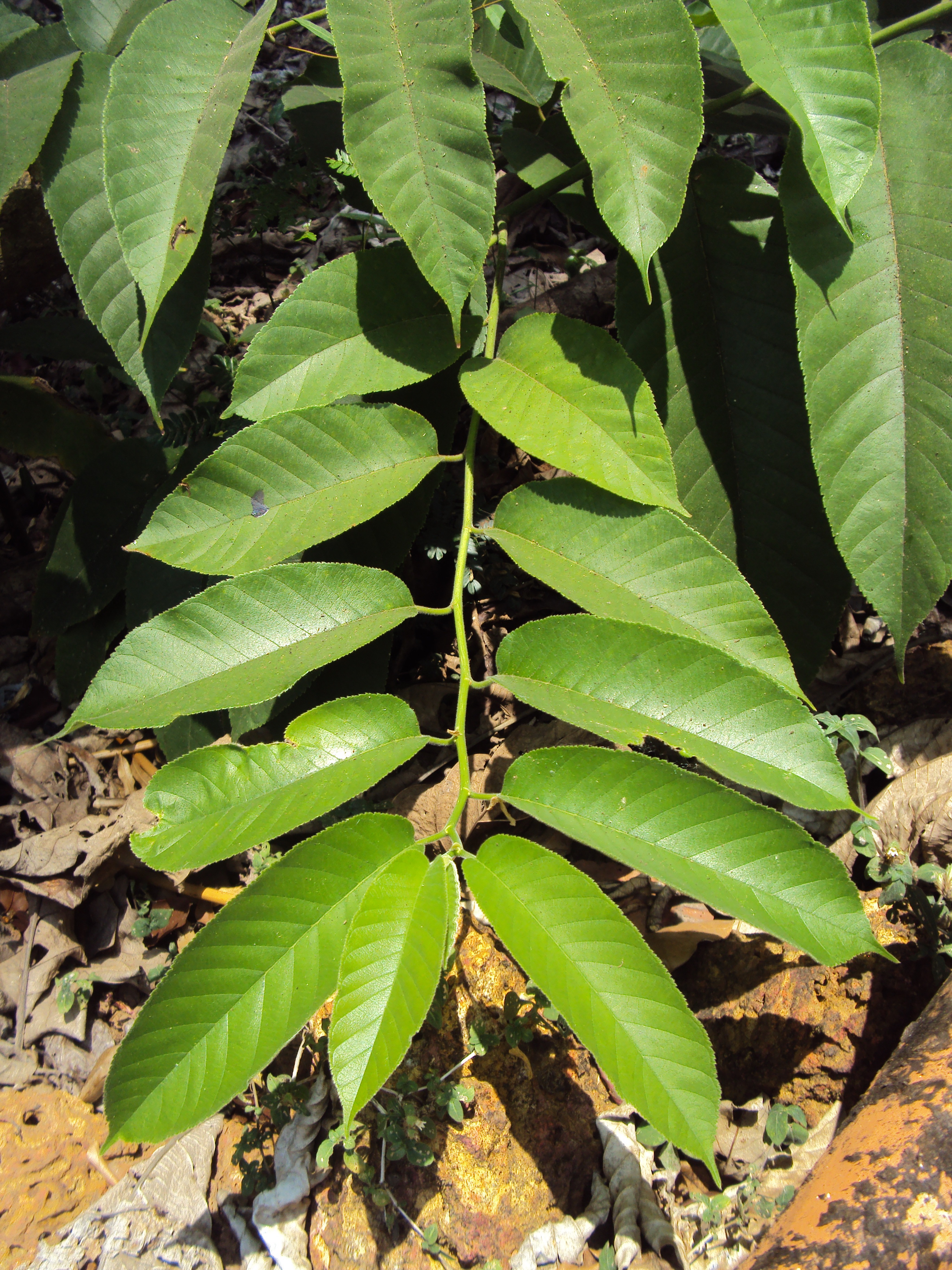 Castilla elastica